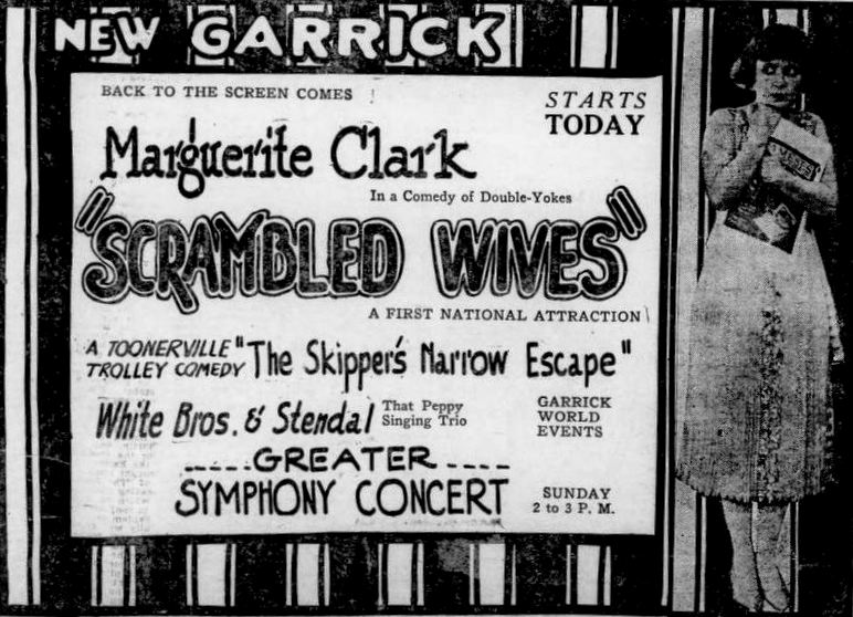 Newspaper ad for the American film Scrambled Wives (1921) with Marguerite Clark, on page 7 of the April 16, 1921 Duluth Herald.